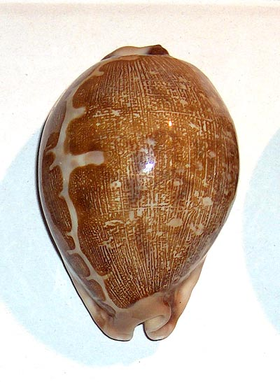 I am the author, this sea shell is part of my collection.